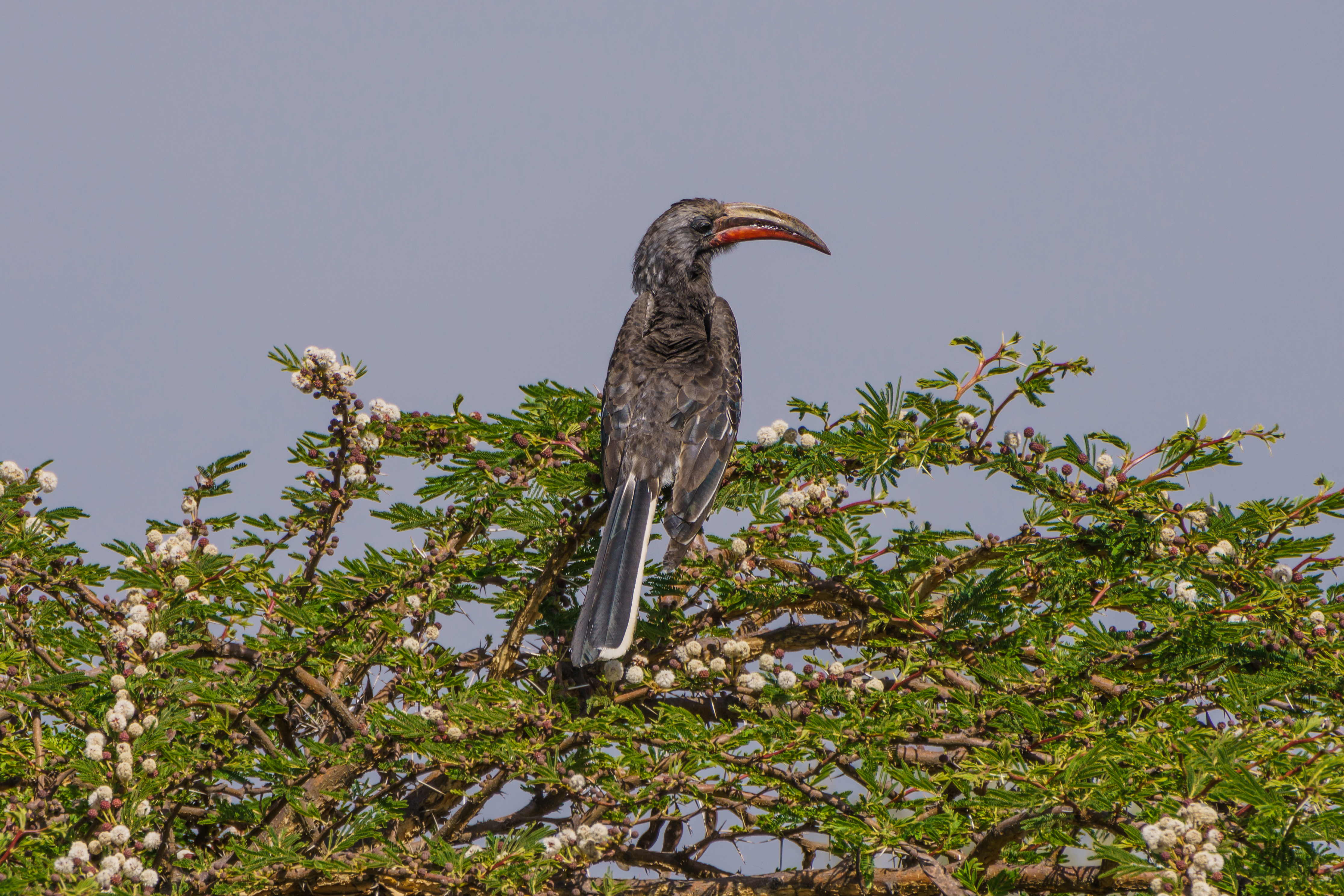 Hemprich's hornbill at Wunenia near Gondar, Ethiopia